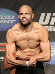 Wilks at UFC 120